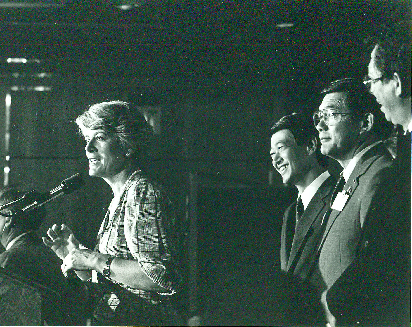 Democratic Party politician Geraldine Ferraro at the Democratic National Party Convention in San Francisco, California. Pictured behind Ferraro is from left Bob Matsui, congressman for California's 5th district, Norman Mineta, former Mayor of San Jose and Tom Hsieh, who was on the 1986 Board of Supervisors in San Francisco . 1984 photograph by Nancy Wong